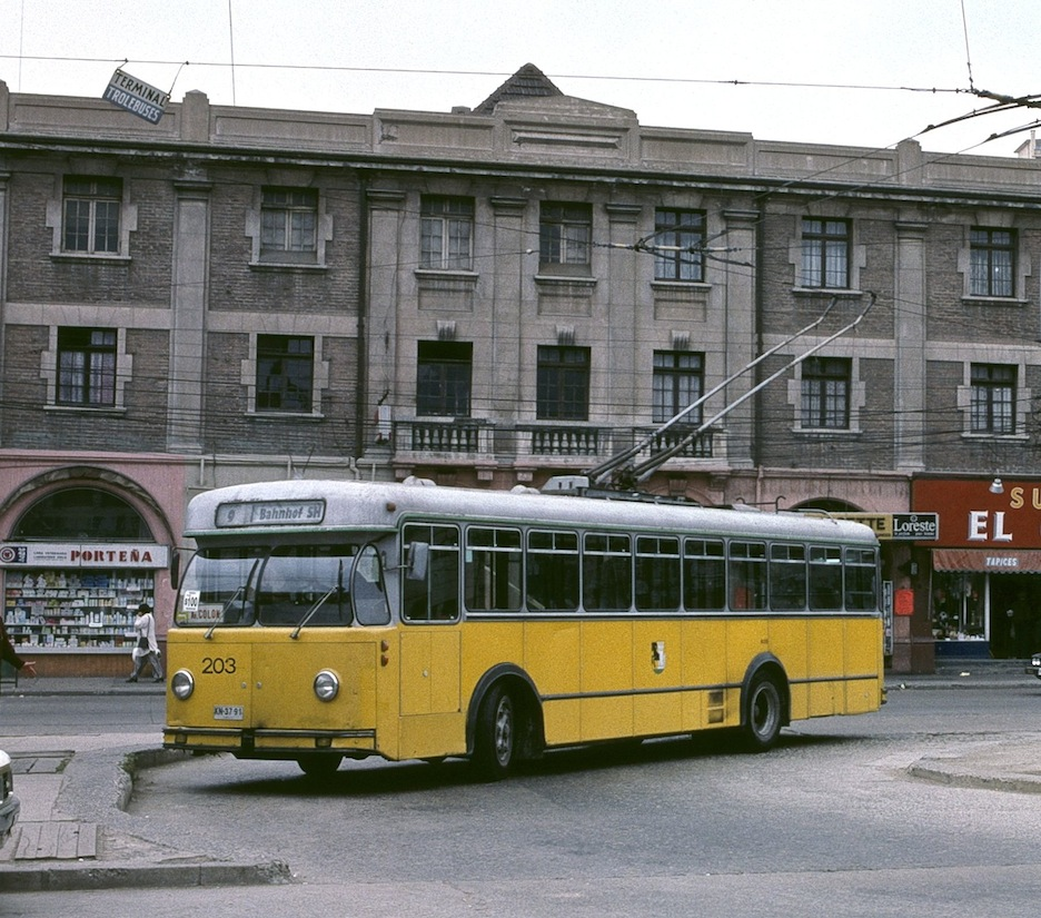 Valparaíso trolleybus No. 203 is ex-Schaffhausen (Switzerland) 203, acquired by Valparaíso in 1992. It was built in 1966 by Berna. It is pictured at Barón terminus (in the center of Avenida Argentina just south of Calle Chacabuco) still wearing its yellow Schaffhausen paint scheme and city-crest on the side. Its destination sign is also displaying a Schaffhausen route number and destination (9 to Bahnhof SH). Most trolleybuses in Valparaíso only display "Valparaíso" or "Trolebuses de Chile S.A." (the current operator's name) in the overhead sign box, never any destinations, so passengers are not accustomed to reading the overhead signs and, therefore, are not confused when Swiss names are displayed. Trolleybus 203 was repainted dark green in 2004 and is still in regular service in 2017.